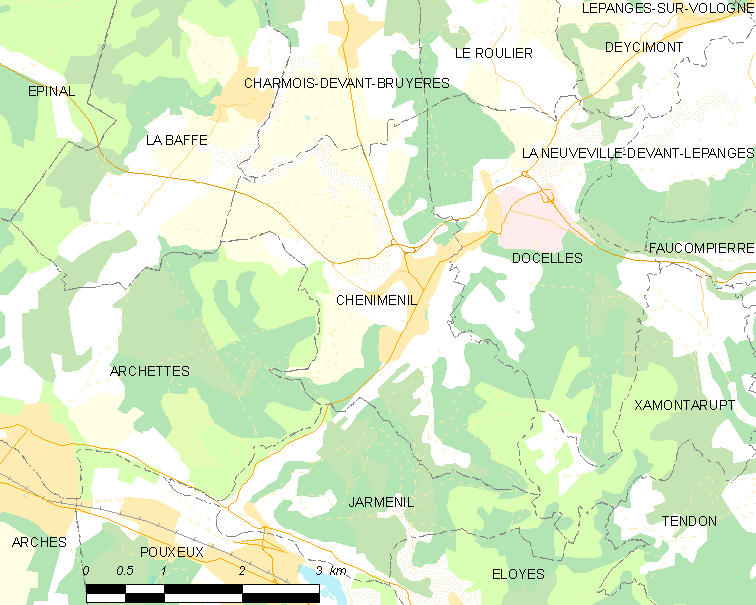 Map of French municipality Cheniménil